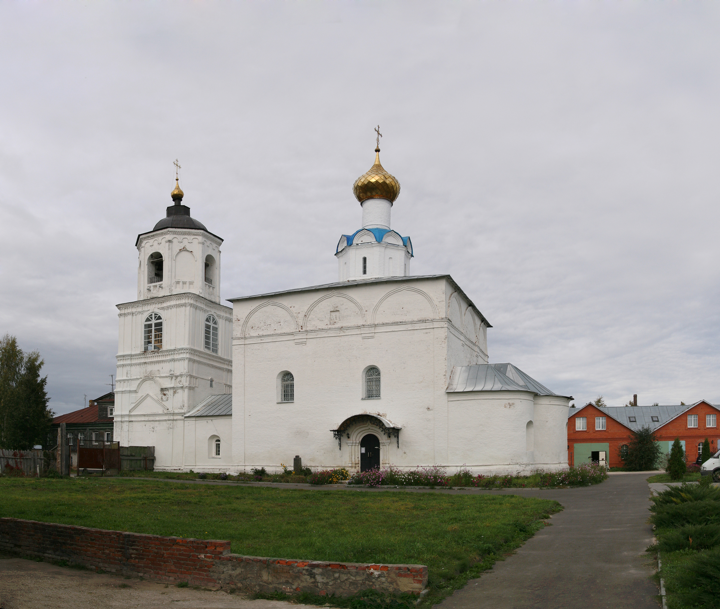 Cathedral of Vasilievsky Monastery, Suzdal, 1662-1669